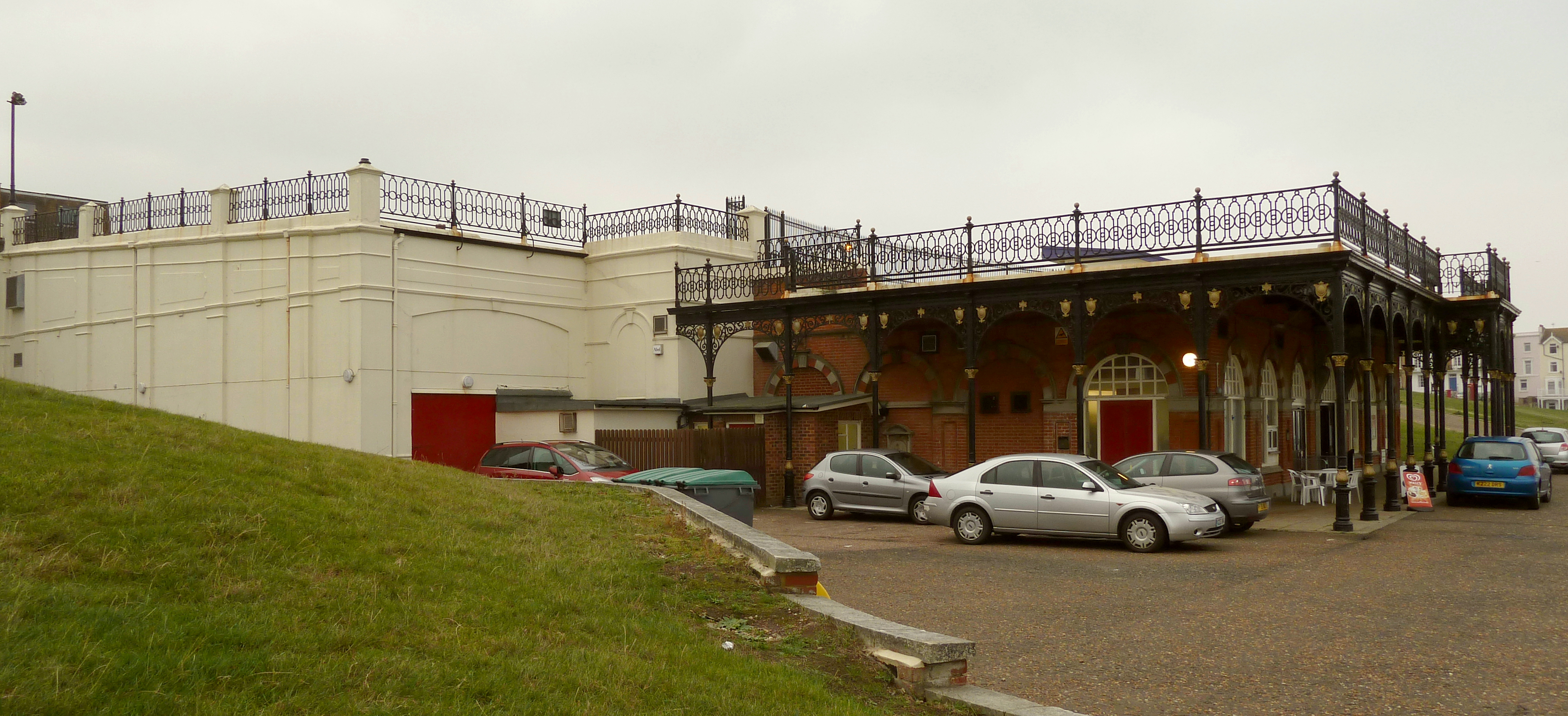 Kings Hall, Herne Bay, Kent England. Looking south-west, at north-east corner of building.